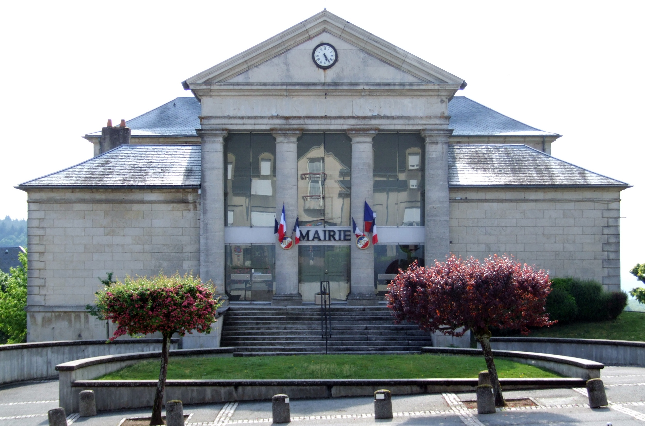 Château-Chinon (Ville), Nievre, Burgundy, FRANCE